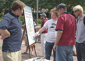 This image, which has been used by the Advocates for Self Government on their organization's website, was created by Lauren Havens, a member of the Auburn University Libertarians, who has granted permission for the image to be released under the GFDL. The picture is of an Operation:Politically Homeless event at Auburn University.